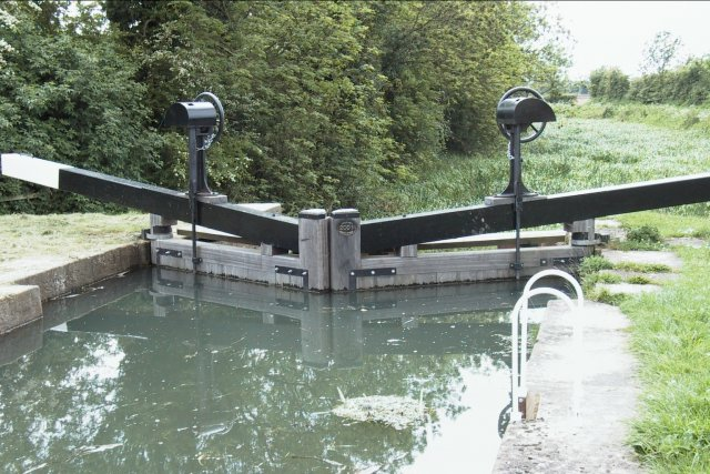 Lock on the Pocklington Canal, south of Pocklington, East Riding of Yorkshire, England.Lock on the Pocklington Canal near to the canal head